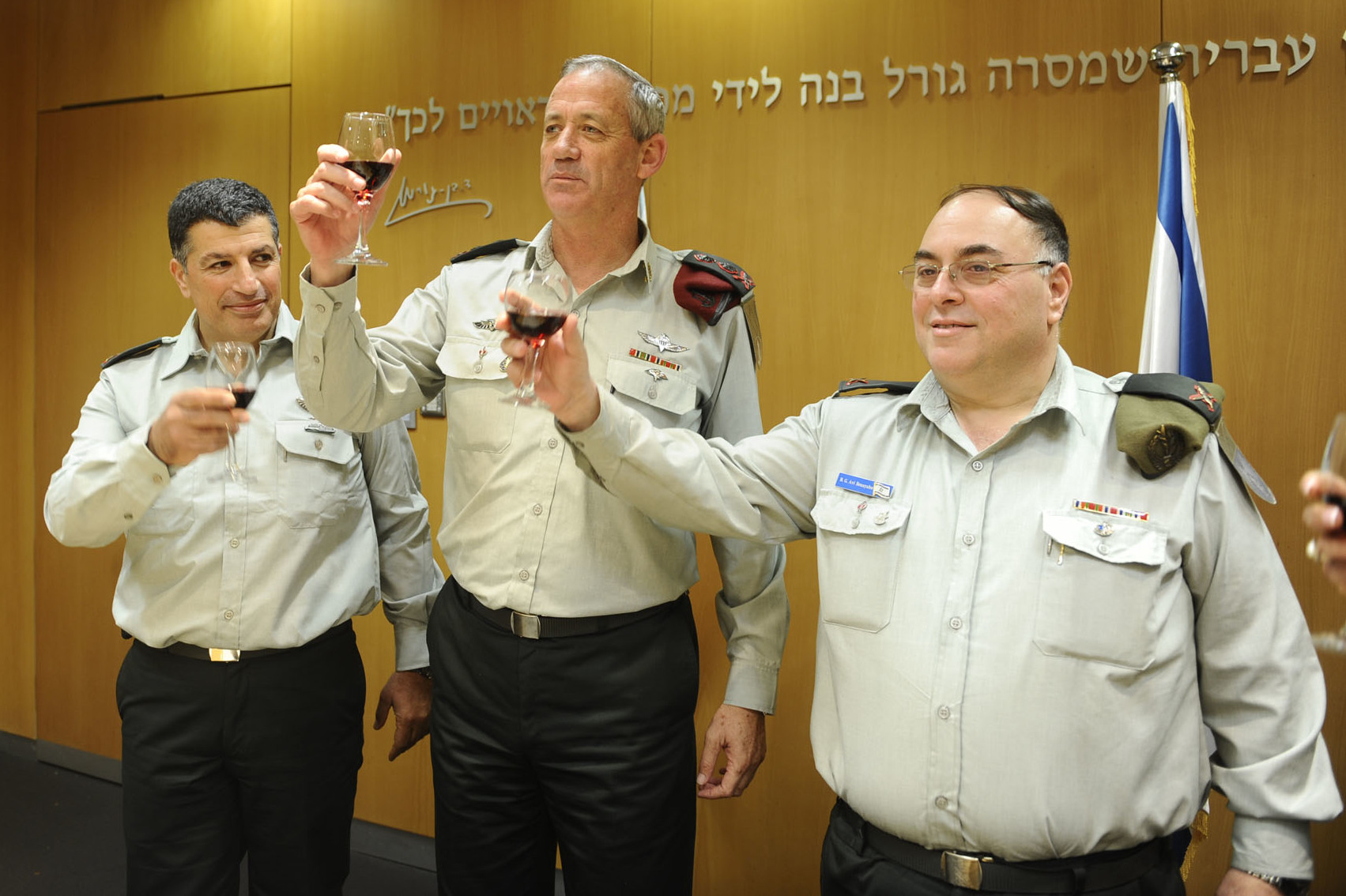 In a ceremony held Thursday (April 7th) at the IDF General Headquarters in Tel Aviv, Brig. Gen. Yoav "Poli" Mordechai was appointed the IDF Spokesperson, replacing Brig. Gen. Avi Benayahu, who is completing his four-year term. The ceremony was led by IDF Chief of the General Staff, Lt. Gen. Benny Gantz, and attended by the members of the IDF General Staff. In addition a ceremony marking the change of command was held, in which the outgoing IDF Spokesperson Brig. Gen. Avi Benayahu transferred the command to the incoming IDF Spokesperson Brig. Gen. Yoav "Poli" Mordechai. This part of the ceremony was presided over by the Head of the Operations Branch, Maj. Gen. Yaacov Ayish, previous IDF Spokespersons, senior commanders, military reporters, and the entire IDF Spokesperson's Unit. Pictured here (from l-r): Incoming Spokesman Brig. Gen. Yoav "Poli" Mordechai, Chief of Staff Lt. Gen. Benny Gantz, Outgoing IDF Spokesman Brig. Gen. Avi Benayahu For more information